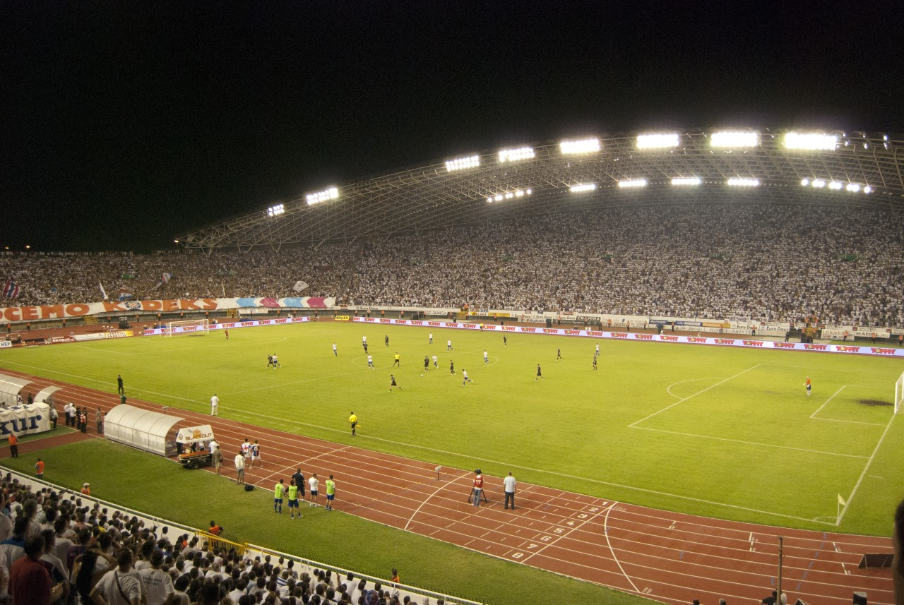 Poljud - full stands